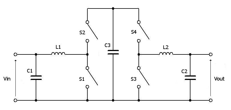 Schematic of Split-Pi Power Controller Topology